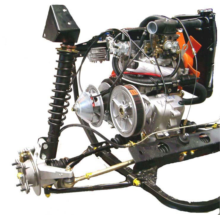 Half front axle of a Microcar Virgo.